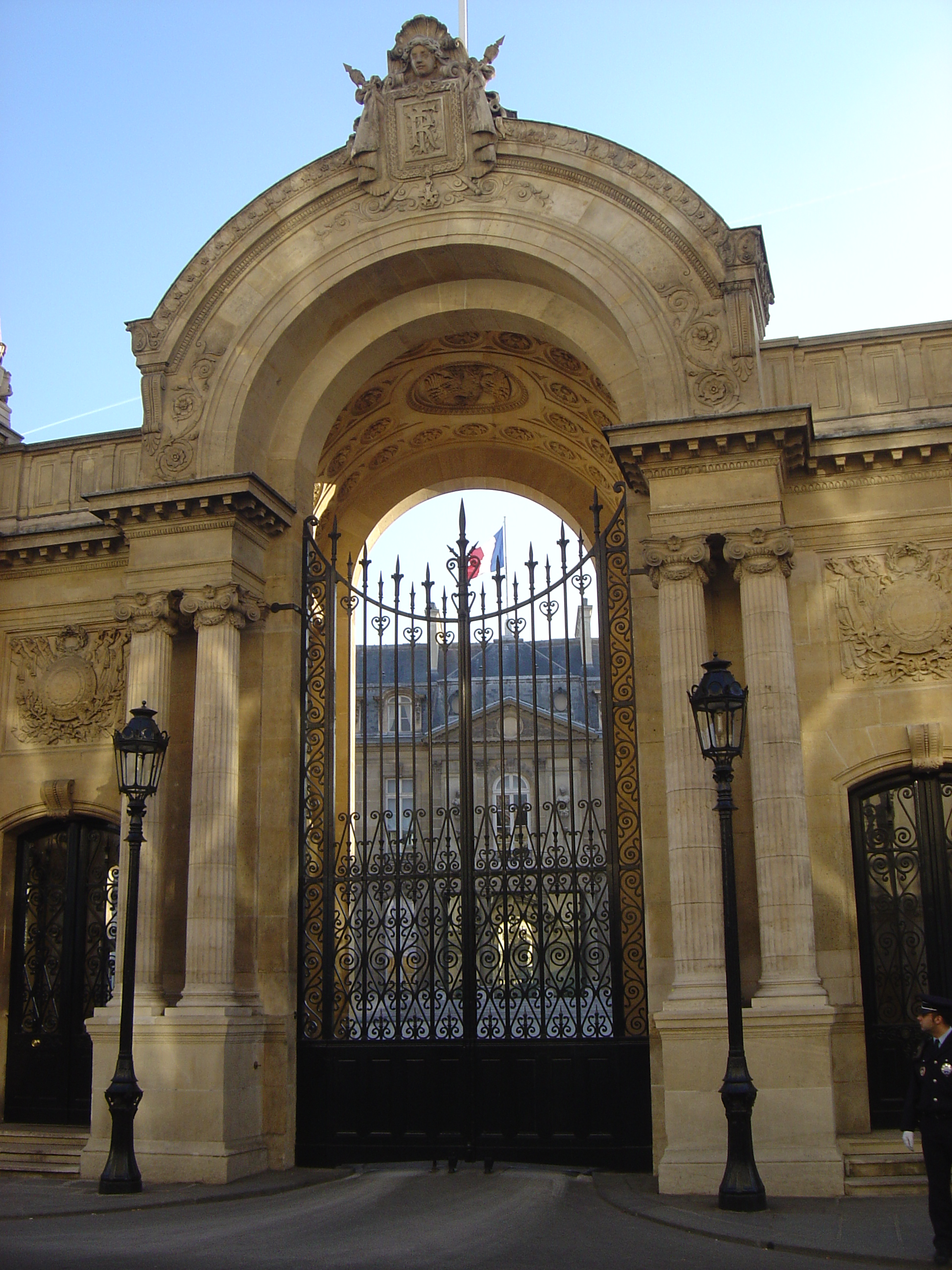 the entrance to the Élysée Palace photo by myself, March 19, 2005